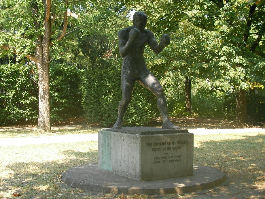 Primo Carnera's bronze statue, to the Parco della Resistenza